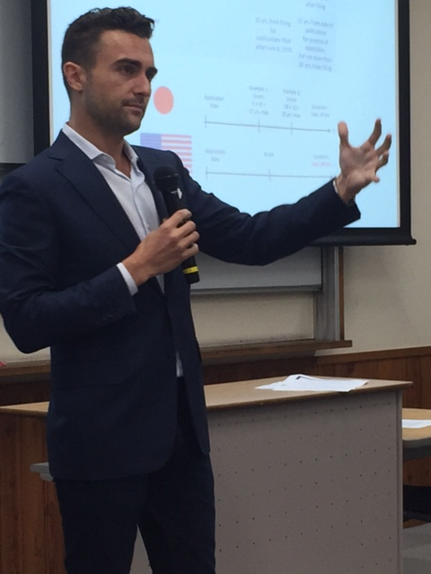 Robert Agresta publicly presenting in Tokyo Japan.